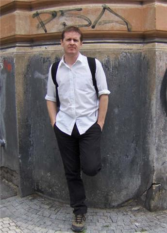 Coln Broderick, writer.